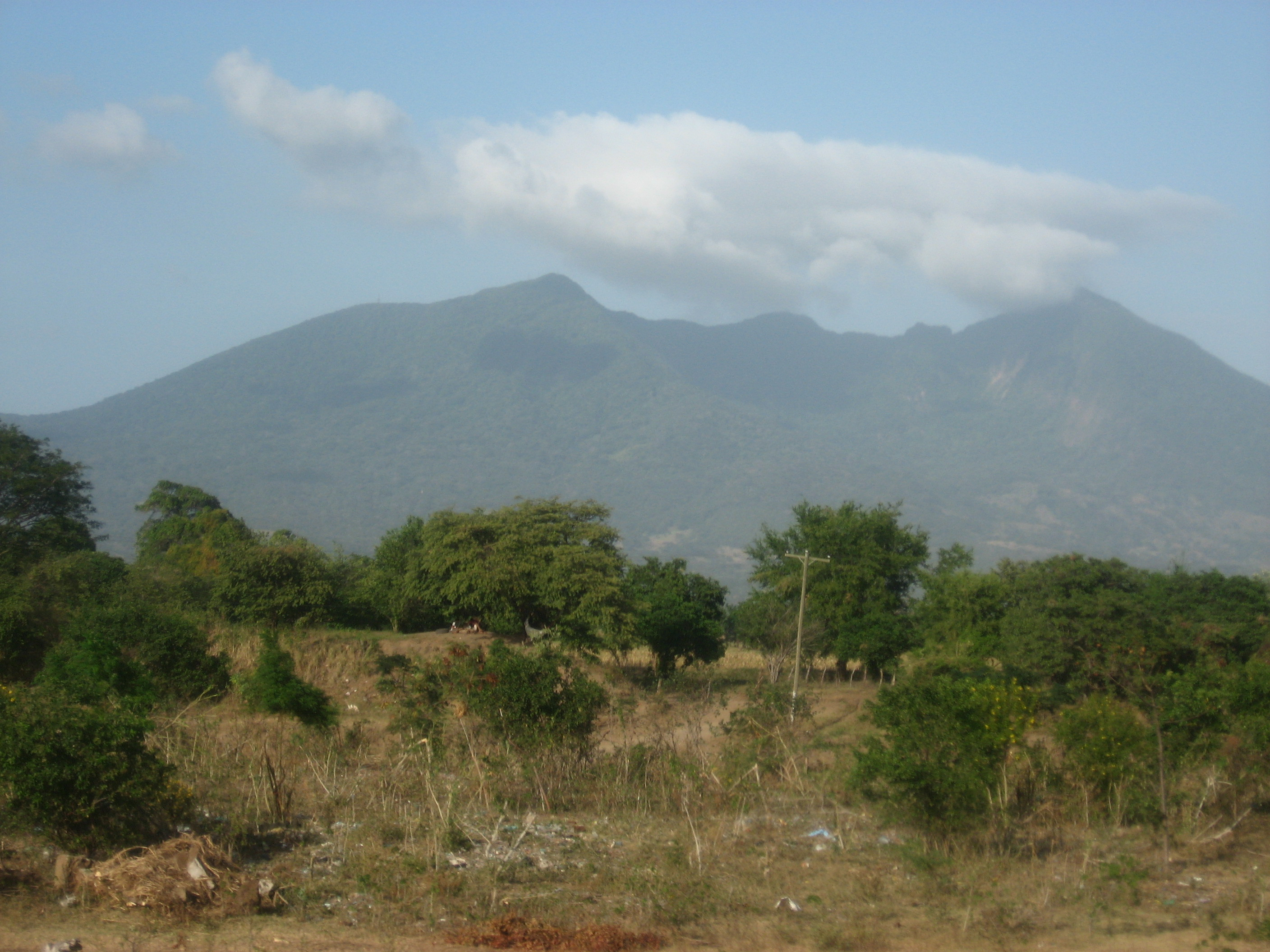 self-taken picture of the Mombacho volcano in Nicaragua